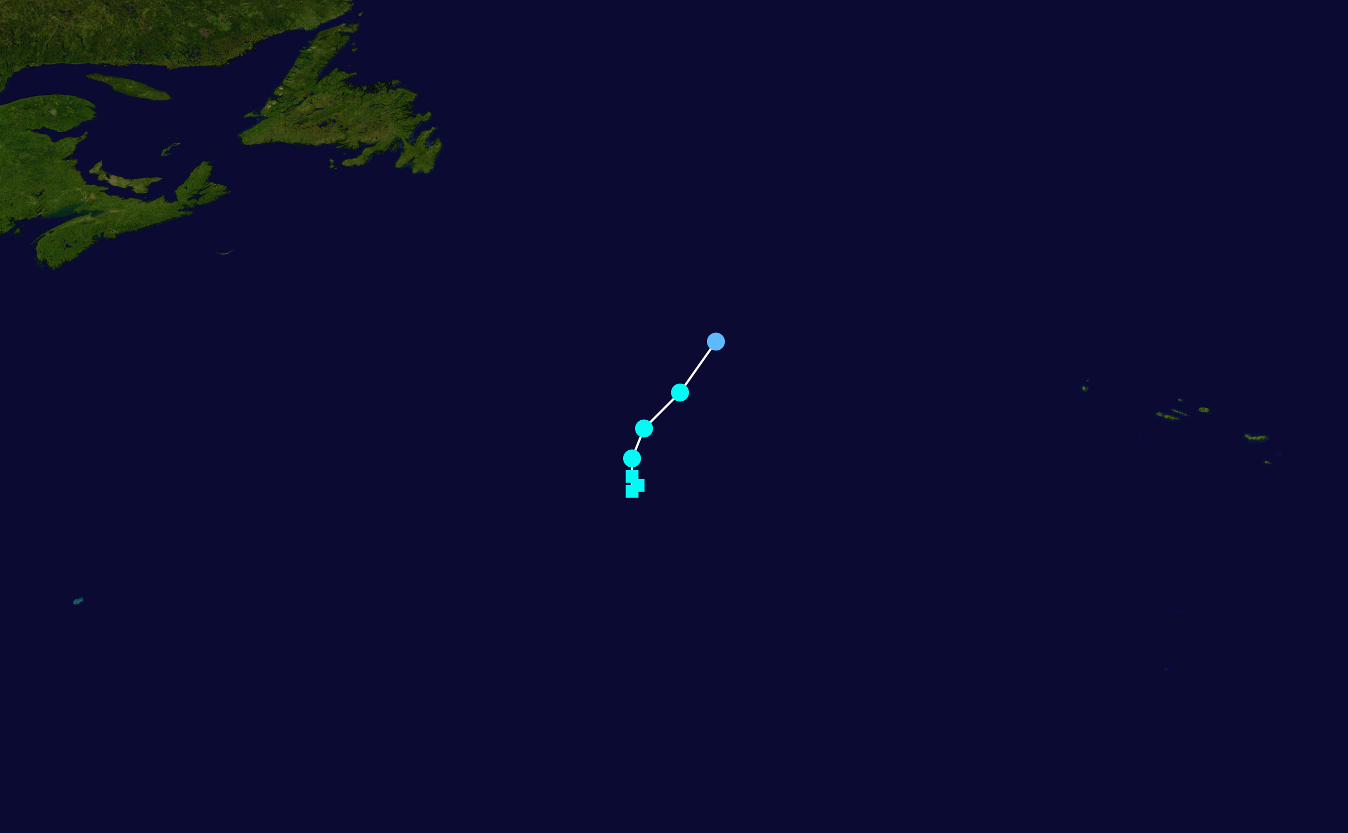 Track map of Tropical Storm Jerry of the 2007 Atlantic hurricane season. The points show the location of the storm at 6-hour intervals. The colour represents the storm's maximum sustained wind speeds as classified in the Saffir–Simpson scale (see below), and the shape of the data points represent the nature of the storm, according to the legend below. Saffir–Simpson scale Tropical depression≤38 mph≤62 km/h Category 3111–129 mph178–208 km/h Tropical storm39–73 mph63–118 km/h Category 4130–156 mph209–251 km/h Category 174–95 mph119–153 km/h Category 5≥157 mph≥252 km/h Category 296–110 mph154–177 km/h Unknown Storm type Tropical cyclone Subtropical cyclone Extratropical cyclone / Remnant low / Tropical disturbance / Monsoon depression